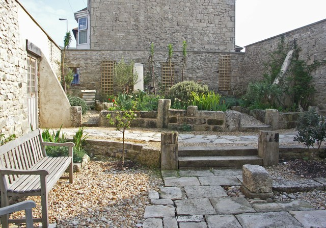 Chiswell Walled Garden This walled garden is within the walls of an old house that once stood on the site. It was made during the period 2001 to 2006 by the Chiswell Community Trust, with funding from Countryside Agency under their Doorstep Green Initiative. It is maintained by volunteer members of the Trust.